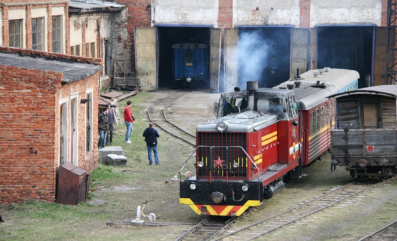 Depot of Alapayevsk narrow-gauge railway in the town of Alapayevsk